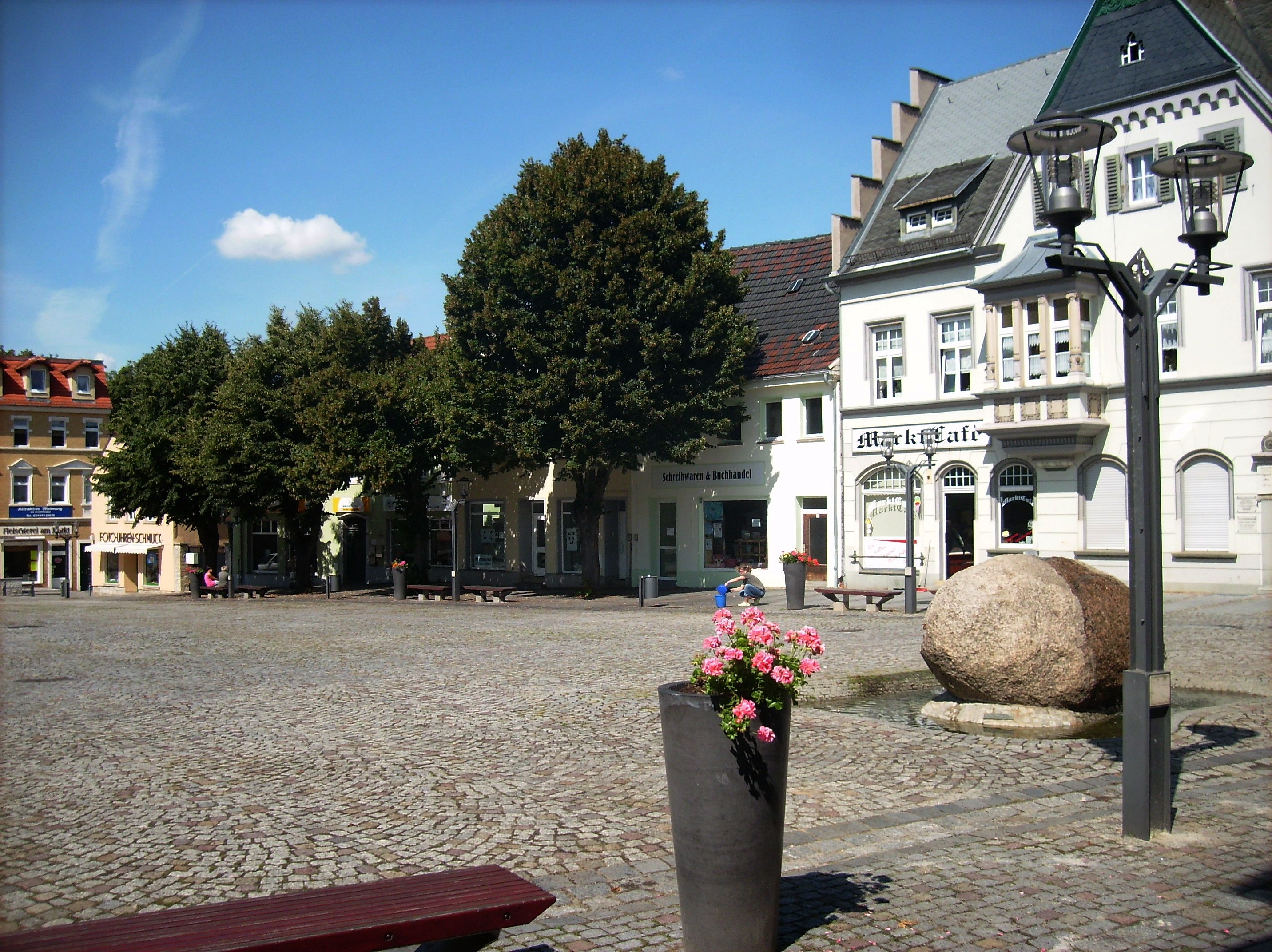 Market square in Hohenmölsen (district of Burgenlandkreis, Saxony-Anhalt)